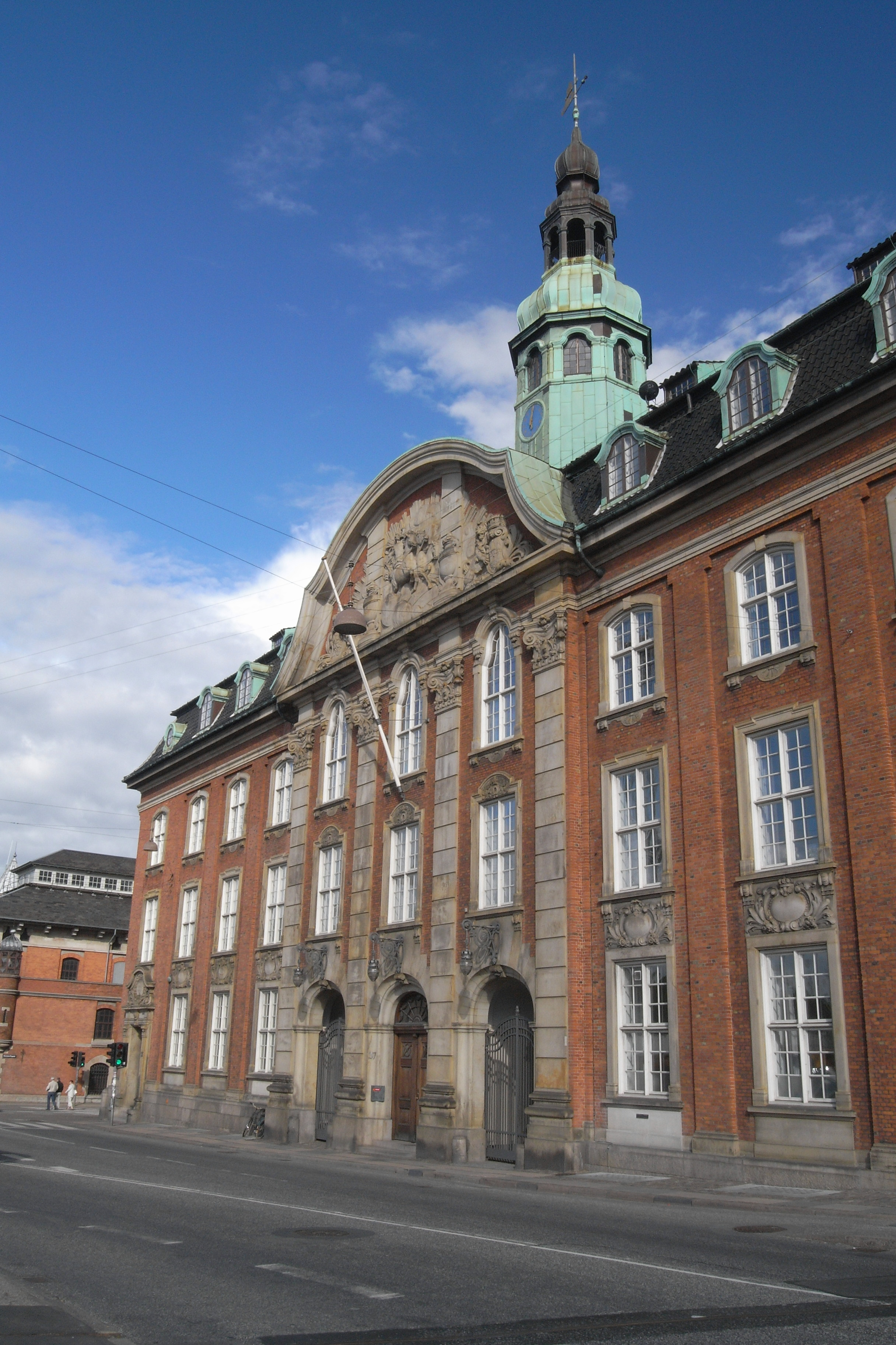 Centralpostbygningen (Central Post Building) in Copenhagen, Denmark. Designed by Geinrich Wenck and built from 1909 to 1912.